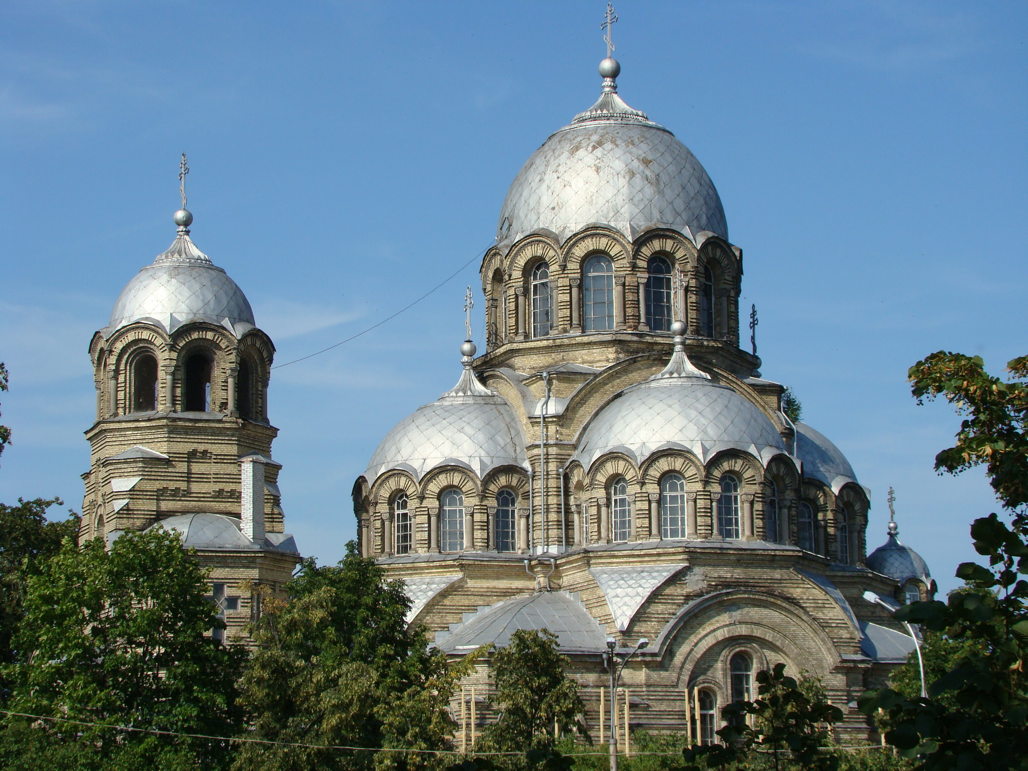 Russian Orthodox Church of Apparition of the Holy Mother of God ("Znamenskaya cerkov'") in Vilnius, Lithuania.